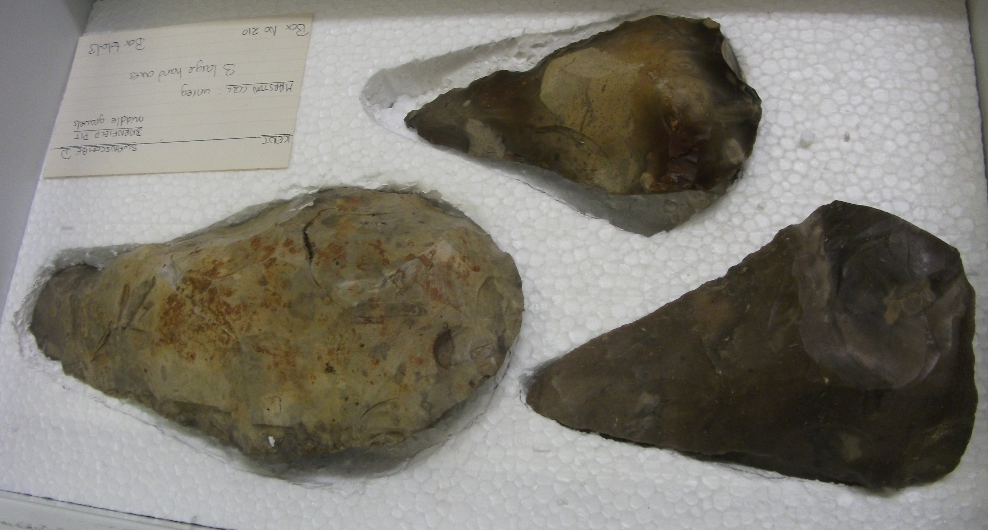 Franks House, 3 hand axes from Barnfield Pit, Swanscombe, Kent, middle levels